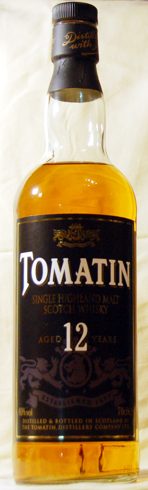 bottle of Tomatin Whisky